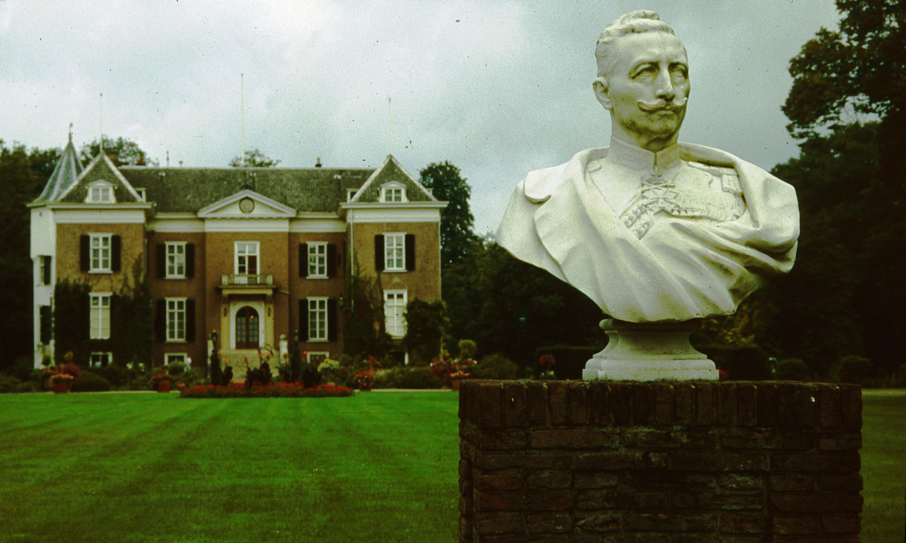 Bust of Wilhelm II at Doorn